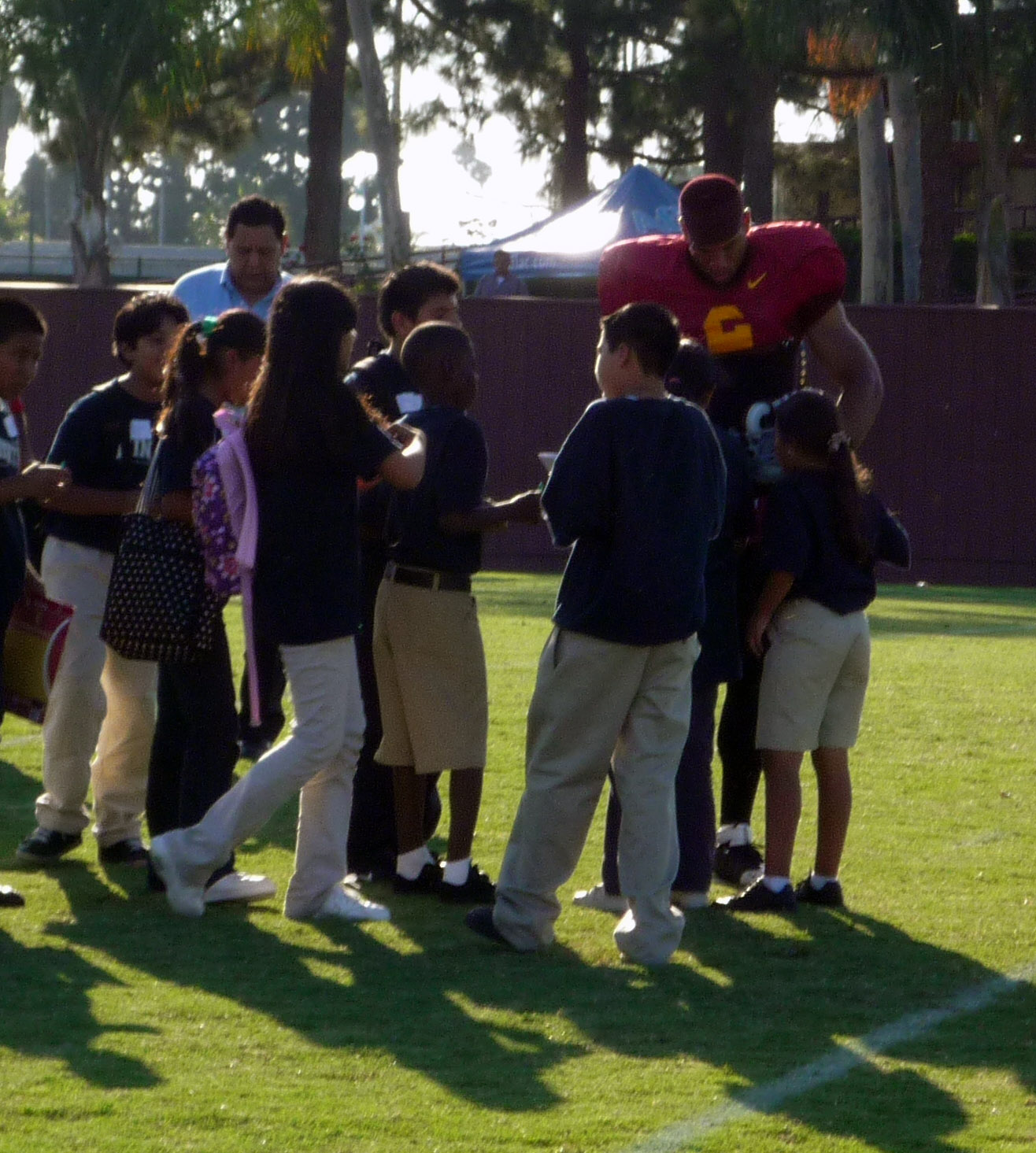 Safety Travon Patterson, signs autographs for school children after fall practice preceding the 2008 USC Trojans football season.